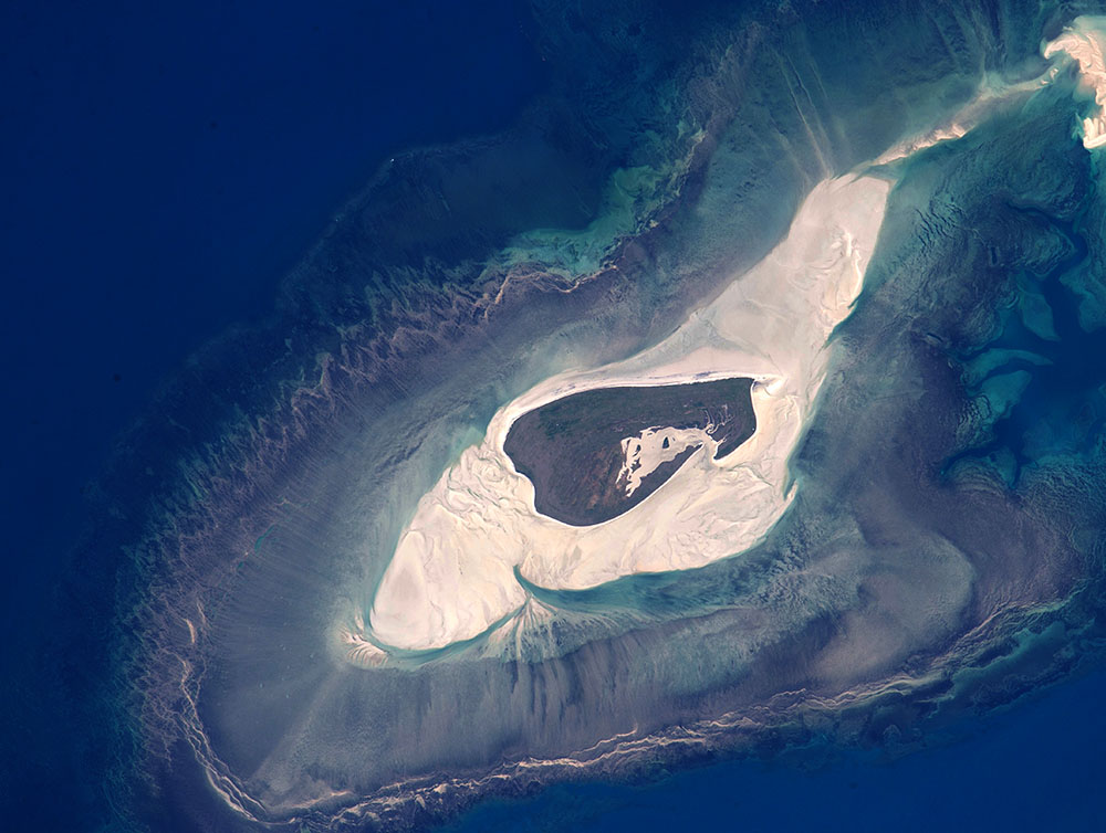 Adele Island NASA Photo ID ISS044-E-00903 Date taken 2015.06.11 Time taken 05:21:42 GM